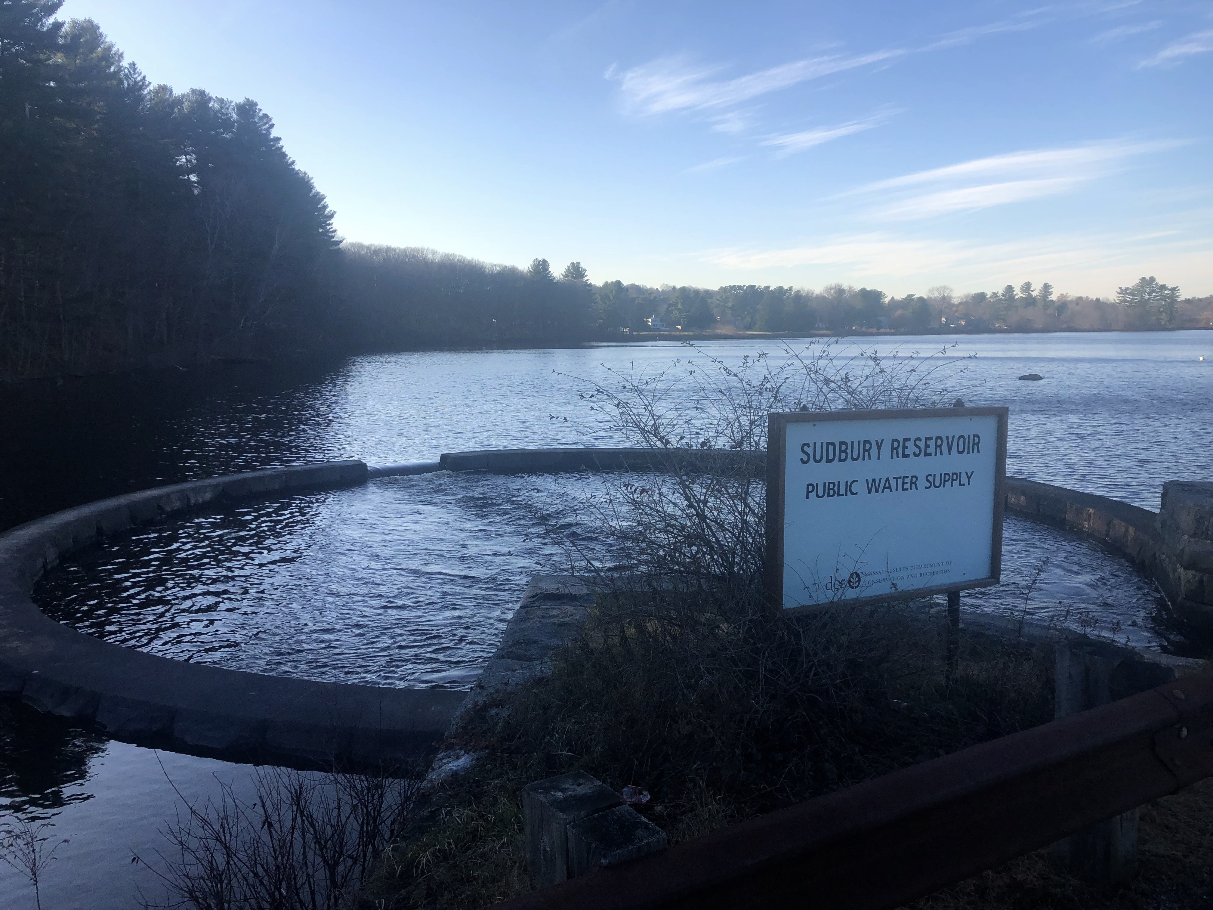 The Sudbury Reservoir is an emergency backup Boston metropolitan water reservoir in Massachusetts, located predominantly in Southborough and Marlborough, with small sections in Westborough and Framingham. Photo taken from Middle Road in Southborough.